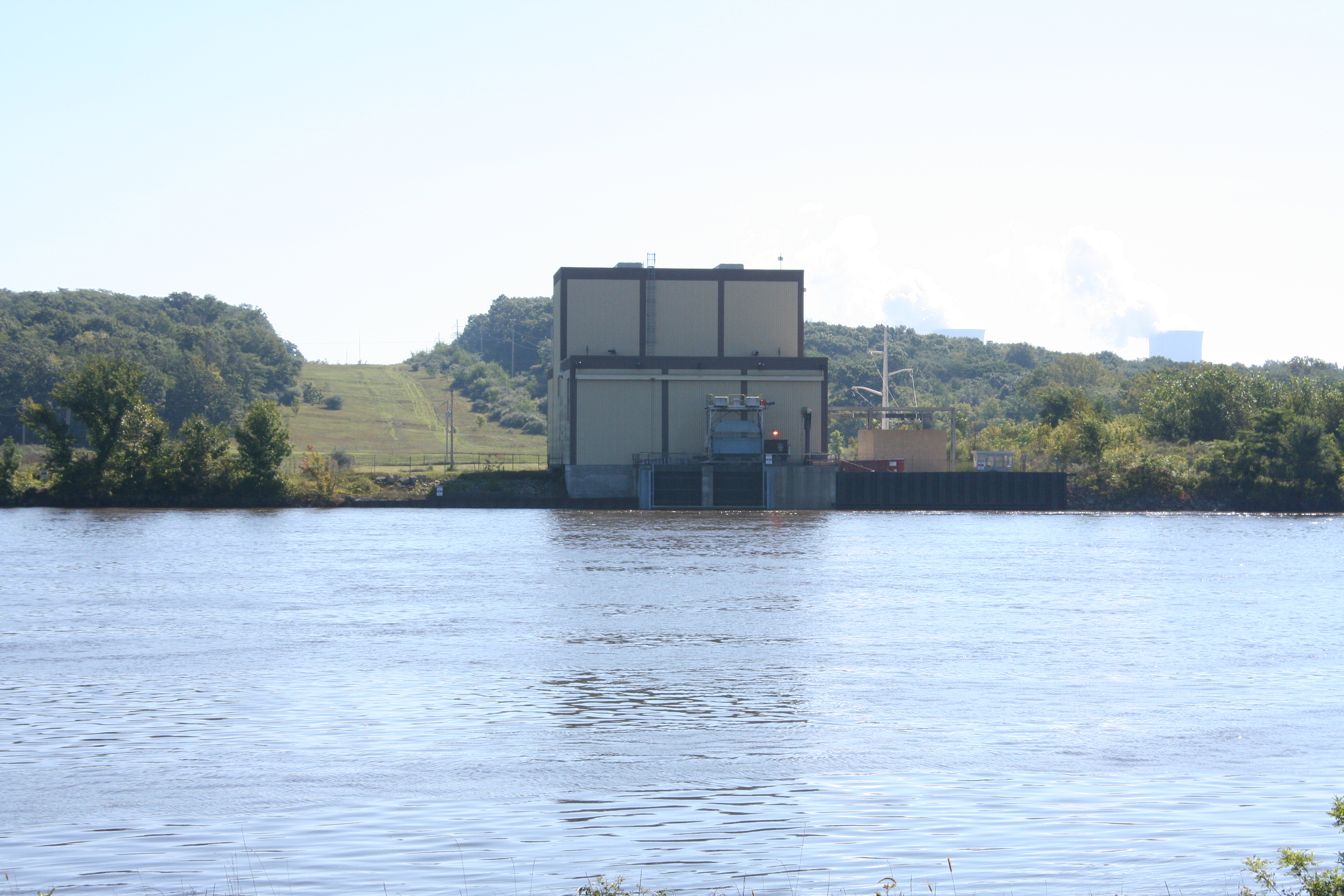 The water facility that feeds the Byron Nuclear Generating Station just south of Byron, Illinois, USA on the Rock River. Can see the cooling towers in the background.